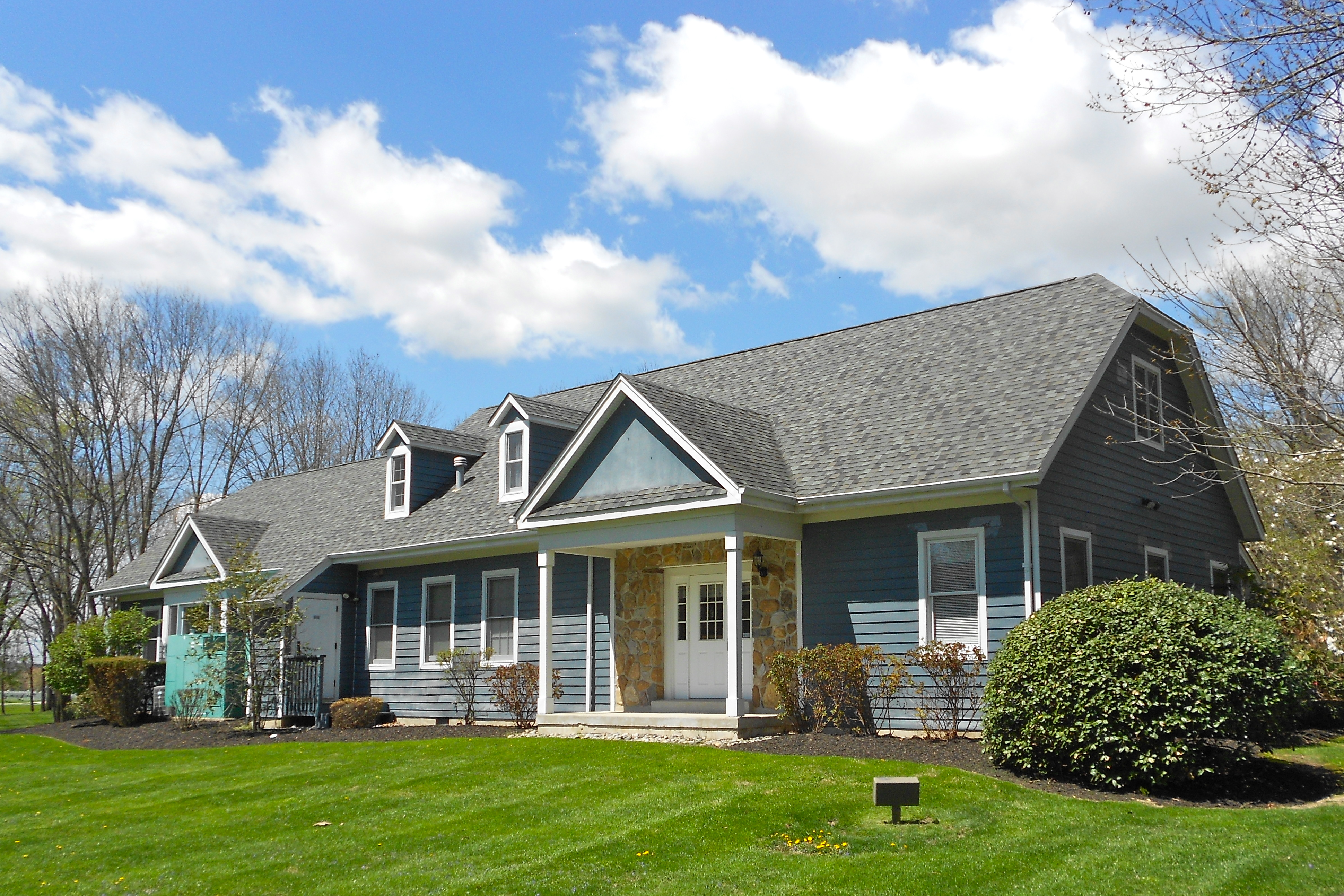 Municipal Building in East Caln Township, Chester County, Pennsylvania. Just east of Downingtown